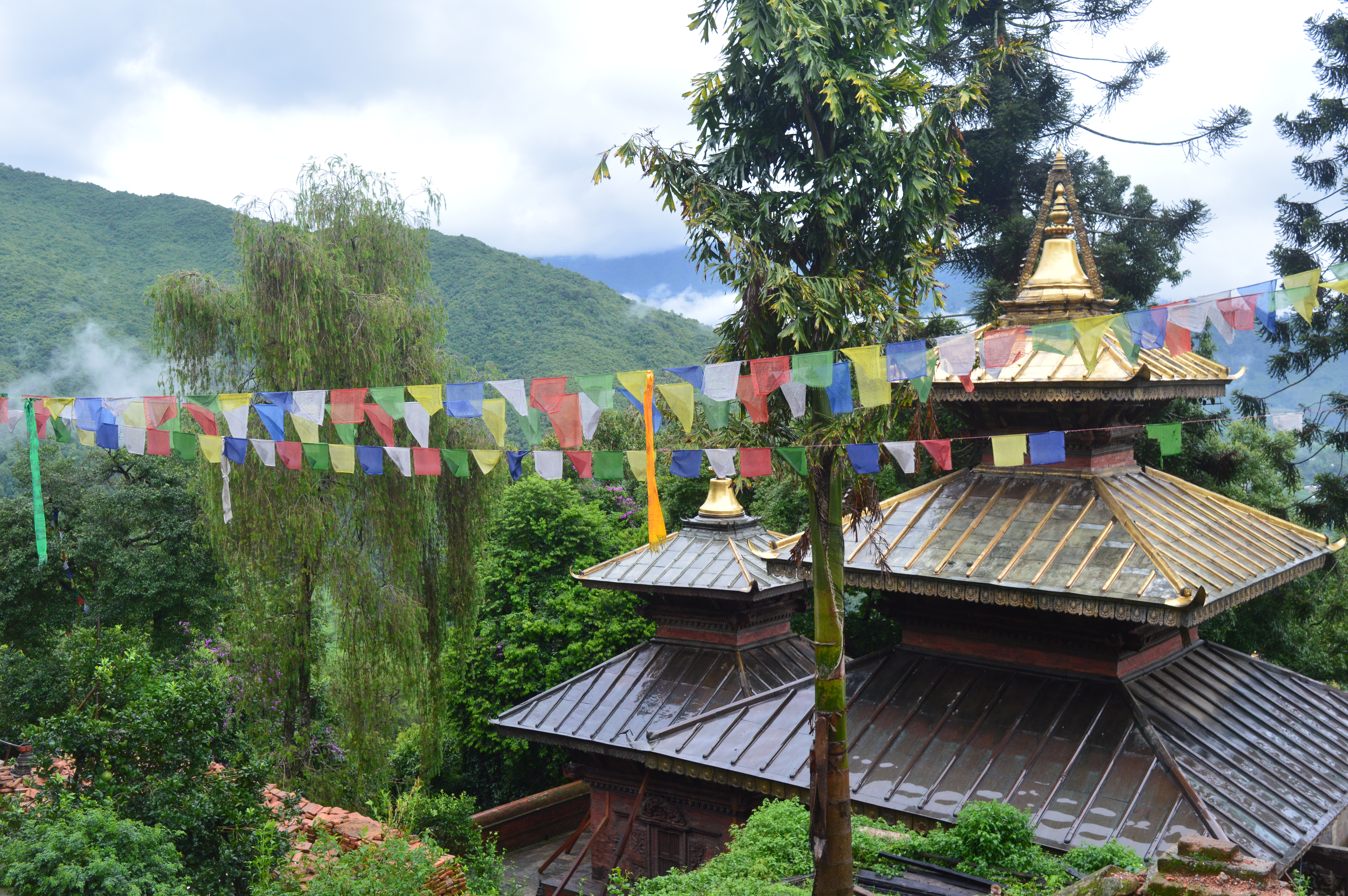 Bajrayogini Temple, Sankhu, July 2015